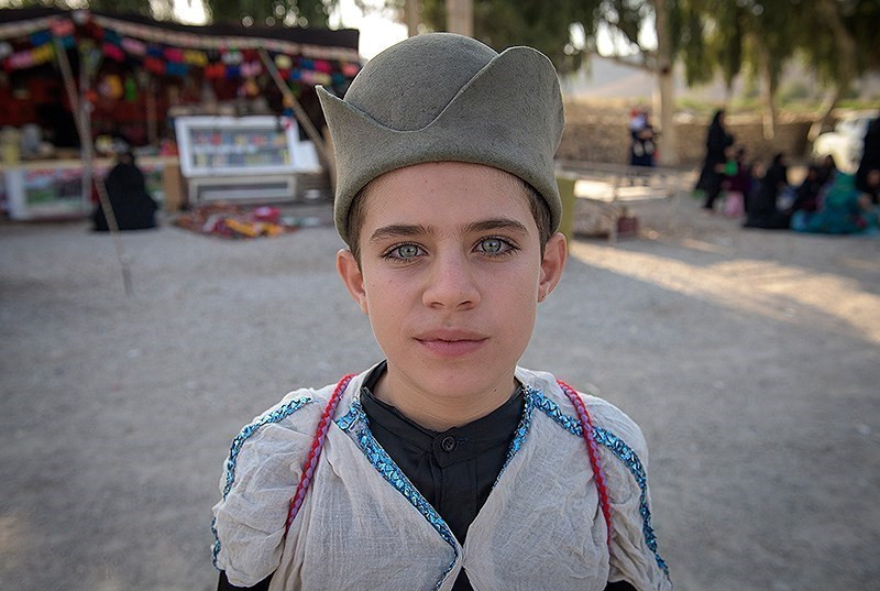 A Qashqai child with traditional hat and clothing